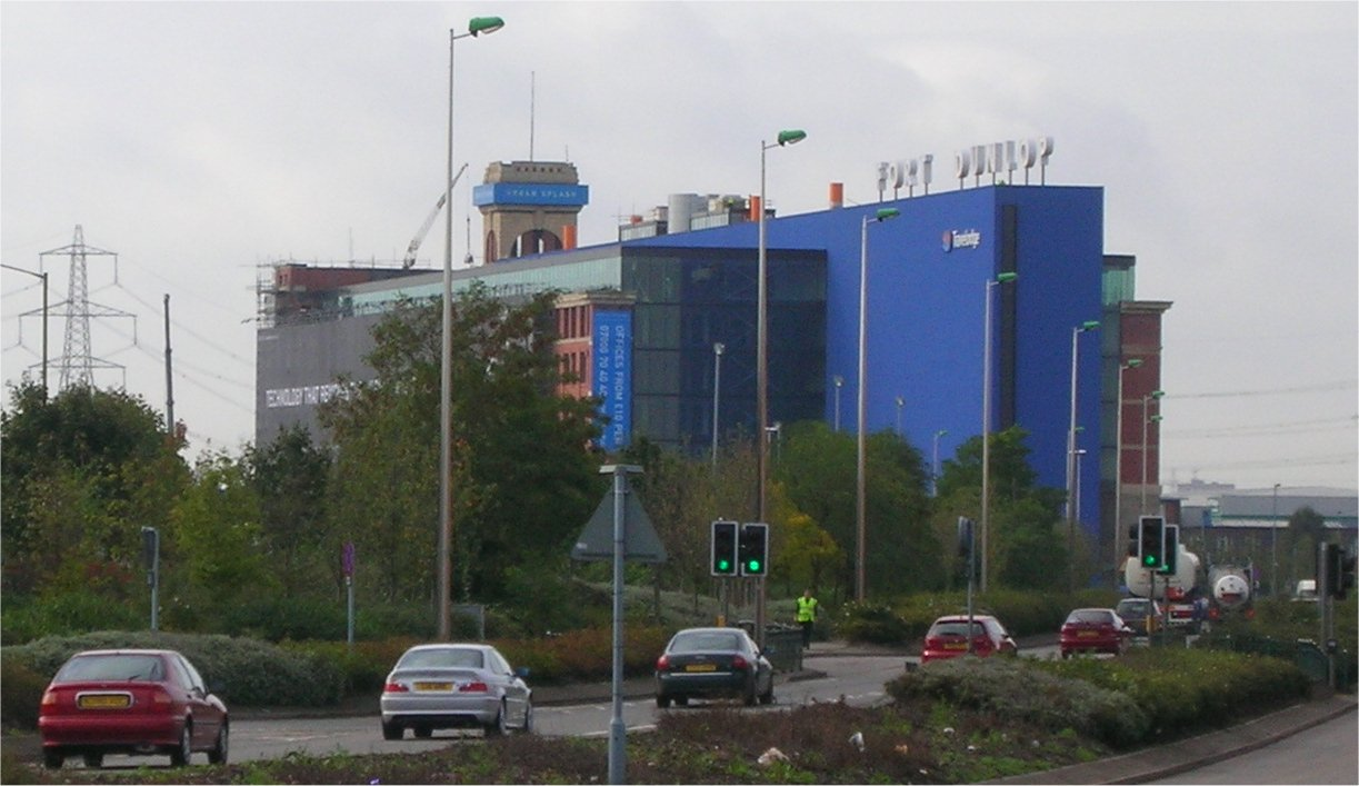 Fort Dunlop on the A47 Fort Parkway, four miles north east of Birmingham, England. Under development into a Travelodge hotel (the blue end), and offices. The distinctive turrets of the 'fort' are at the far end and shrouded. They were a prominent feature seen from the M6 motorway when traveling eastwards. Photographed by me 12 October 2006. Oosoom